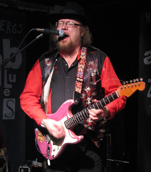 Clas Yngström of Sky High in Hallsberg, Sweden